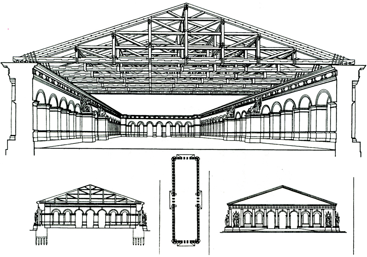 Structure of the Moscow Manege - original 1819 design by Agustín de Betancourt